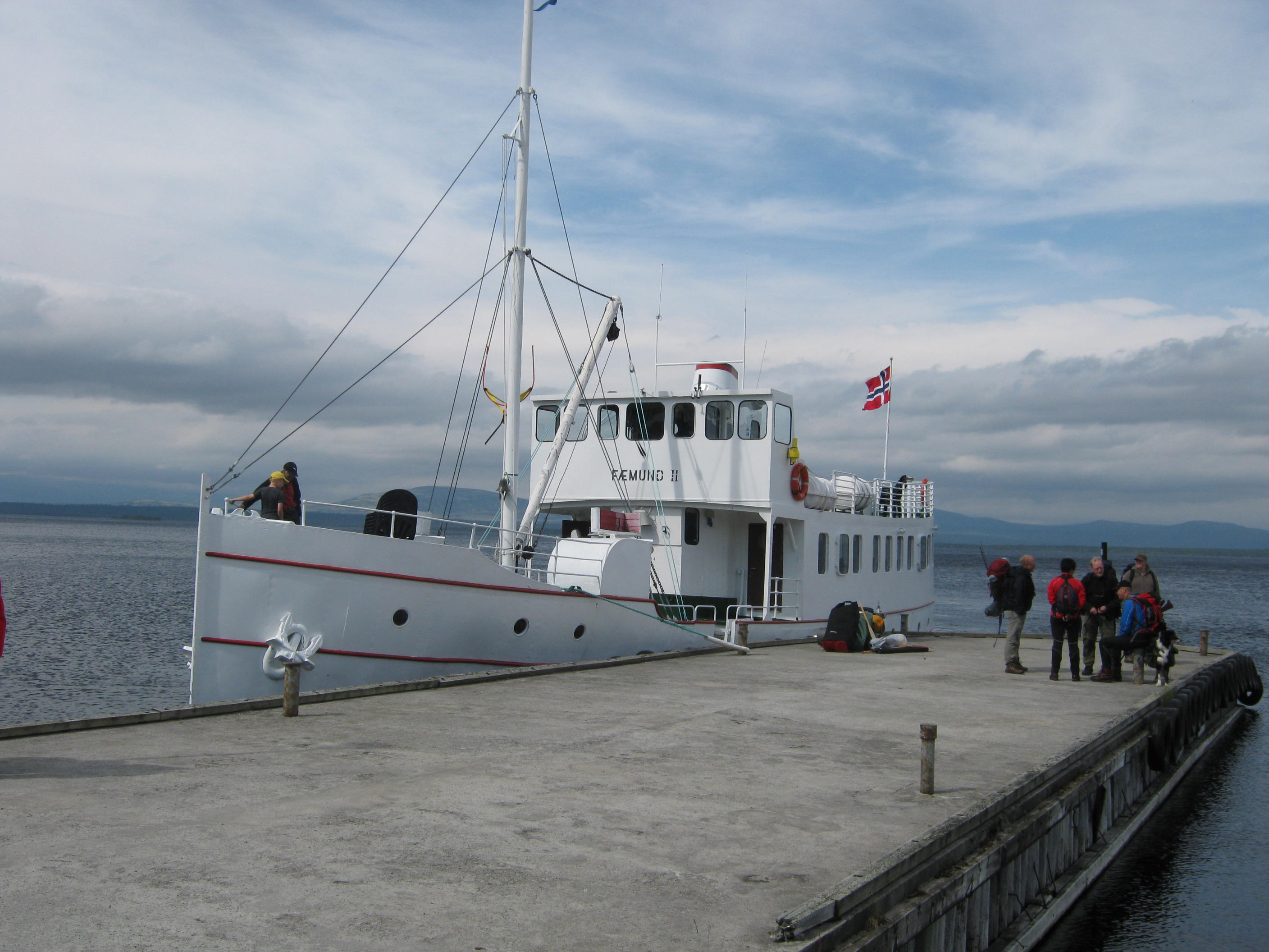 MS Faemund in Elgå